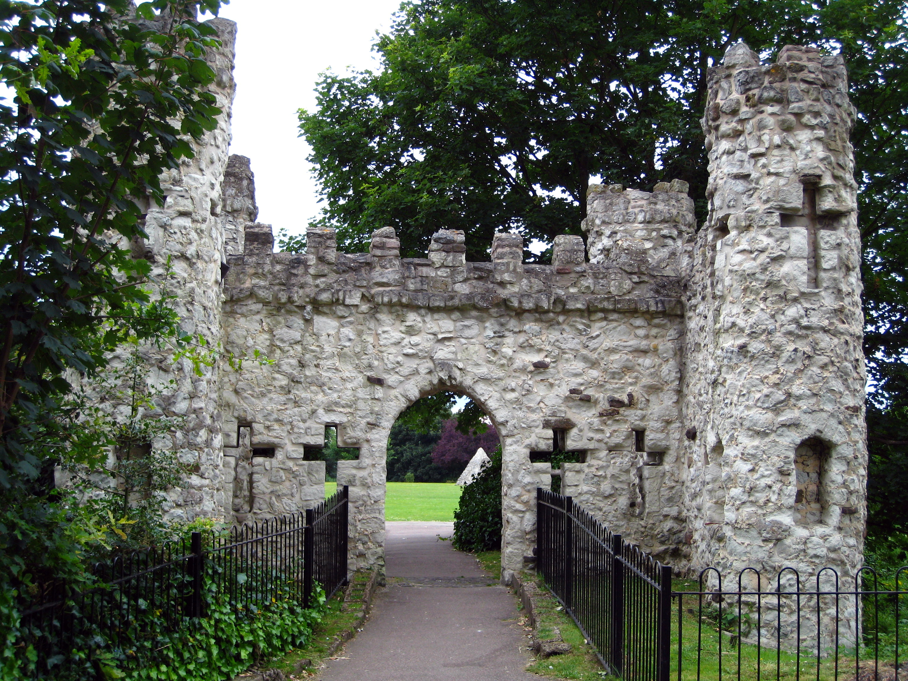 Reigate Castle front view